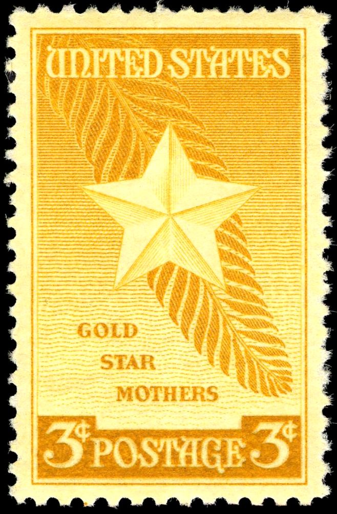 Image of US Postage stamp, Gold Star Mothers commemorative issue of 1948